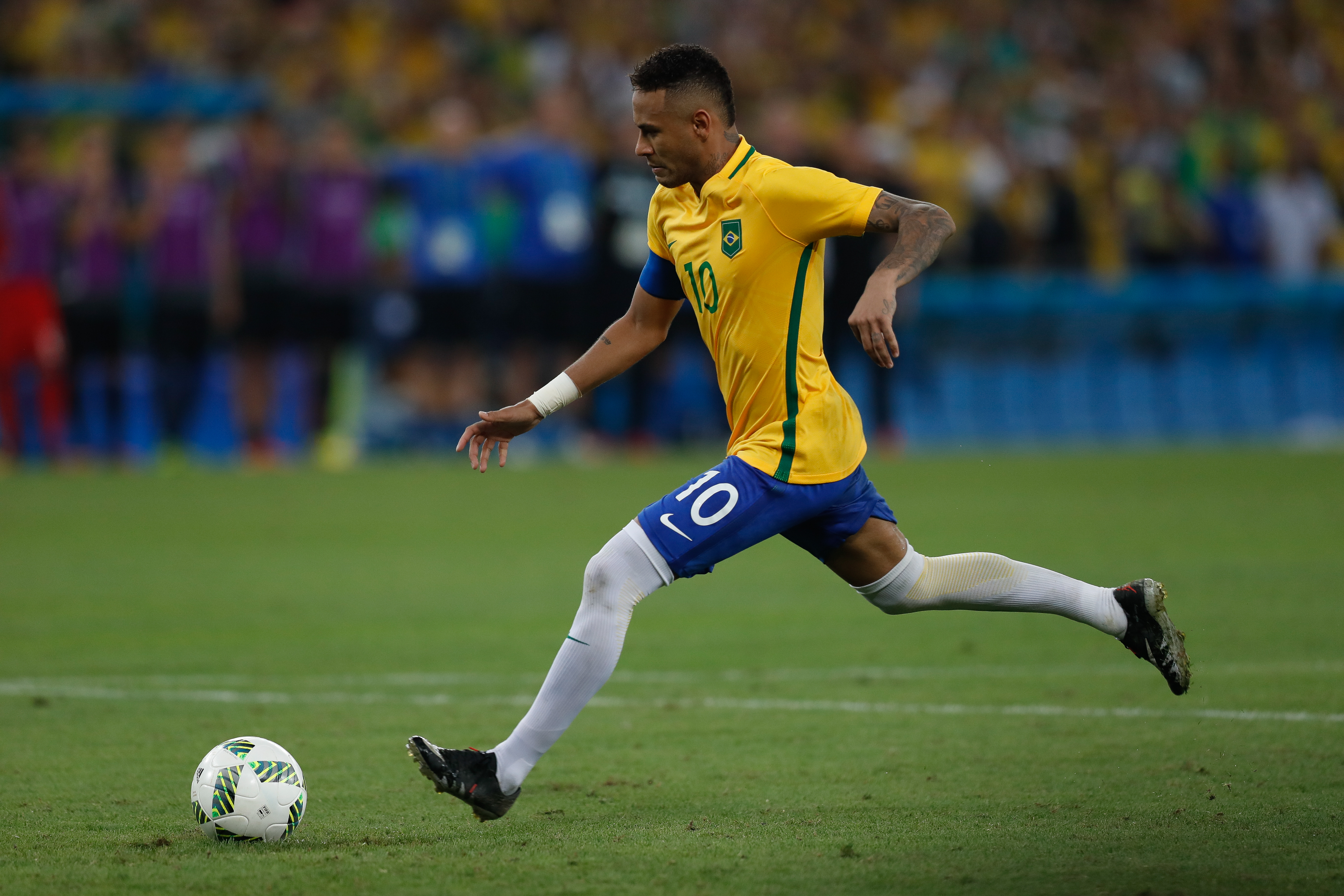 Rio de Janeiro - Brasil vence Alemanha e conquista primeiro ouro olímpico do futebol (Fernando Frazão/Agência Brasil)